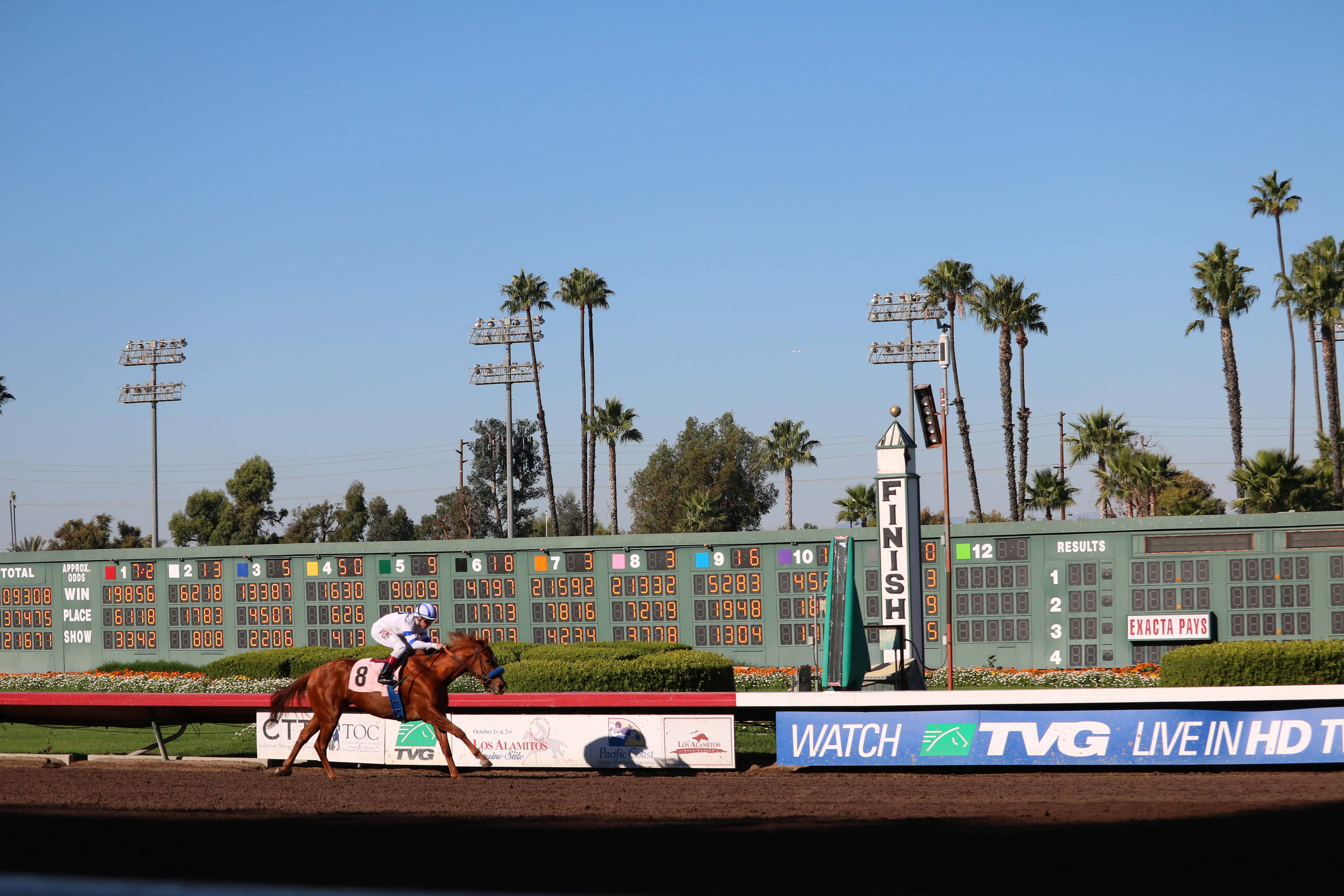 Los Alamitos racetrack December 17, 2016